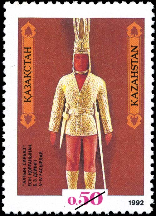 Kazakhstan 50-kopeck stamp of 1992, scanned by User:Stan Shebs